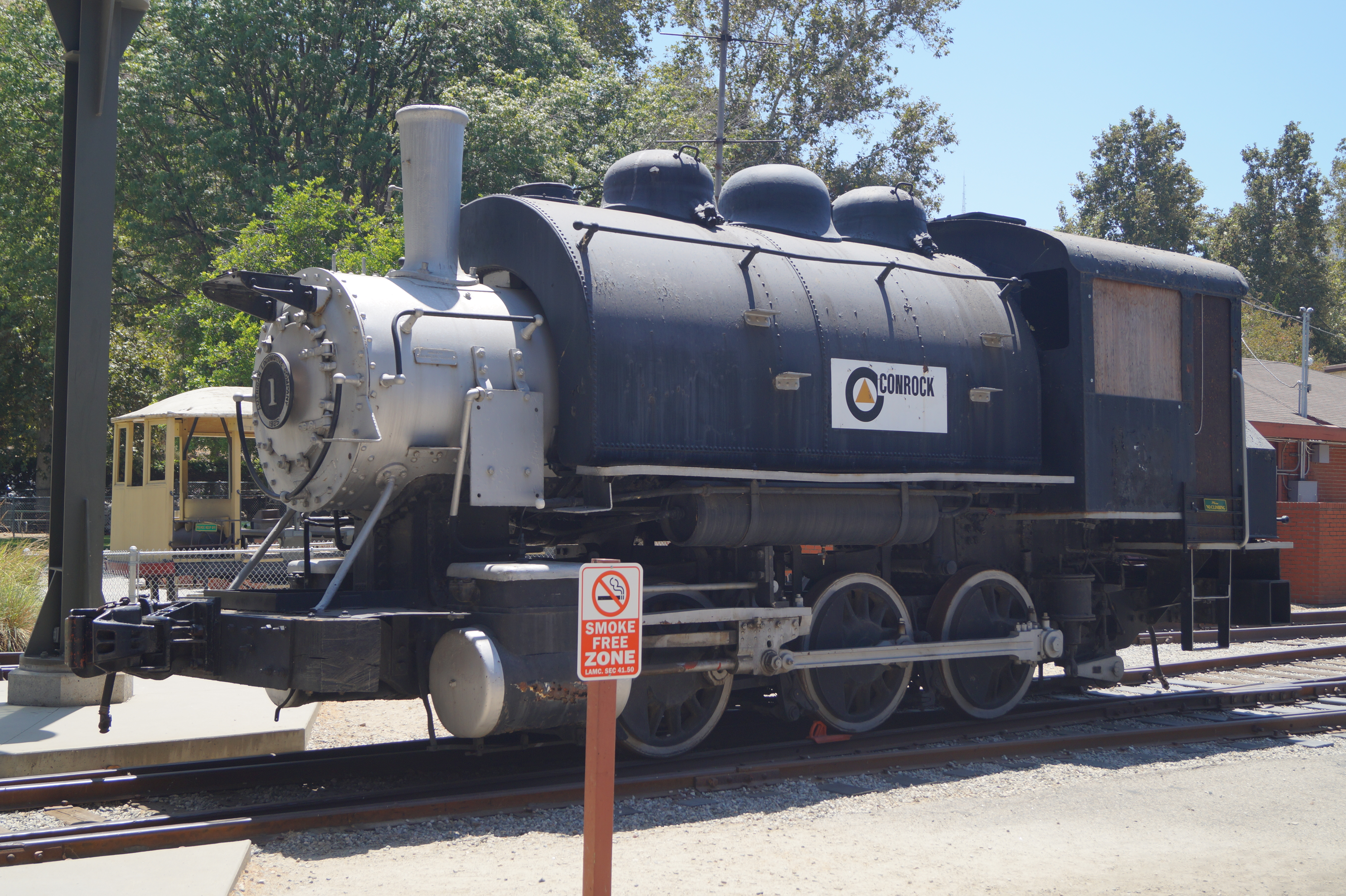 Travel Town Museum is a transport museum dedicated in the northwest corner of Los Angeles, California's Griffith Park. The history of railroad transportation in the western United States from 1880 to the 1930s is the primary focus of the museum's collection, with an emphasis on railroading in Southern California and the Los Angeles area.